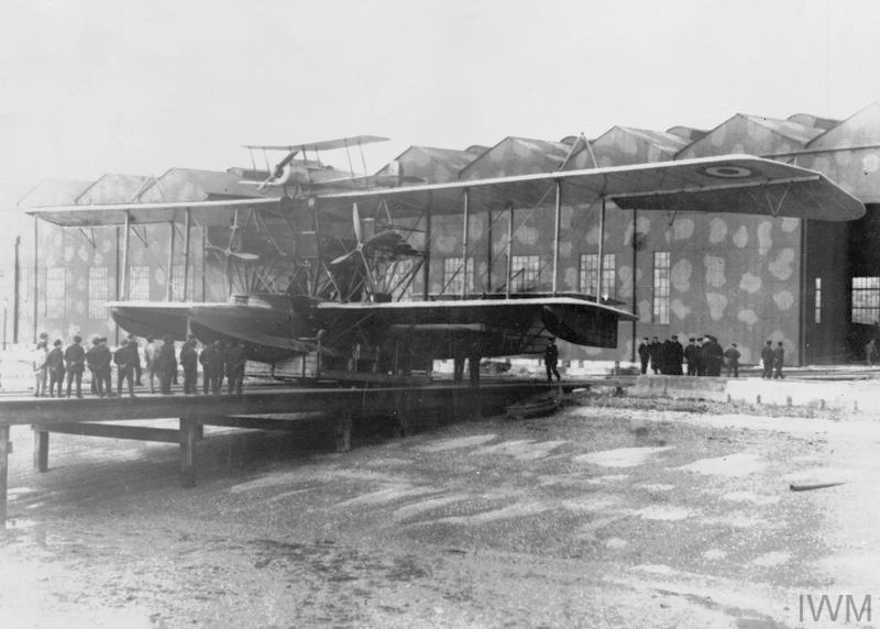 Photograph of a Felixstowe Porte Baby with a Bristol Scout mounted on the upper wing.